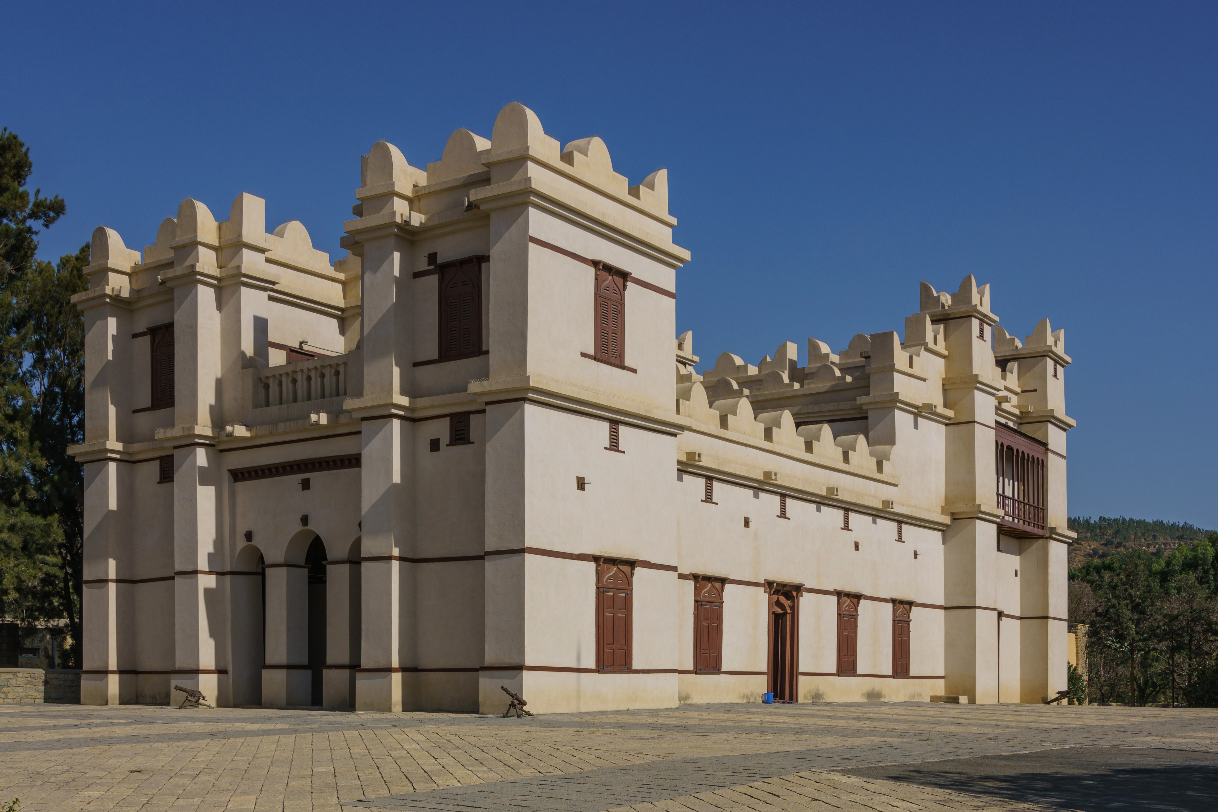 Palace complex of Yohannes IV (Atse Yohannes Museum) in Mekele, Ethiopia